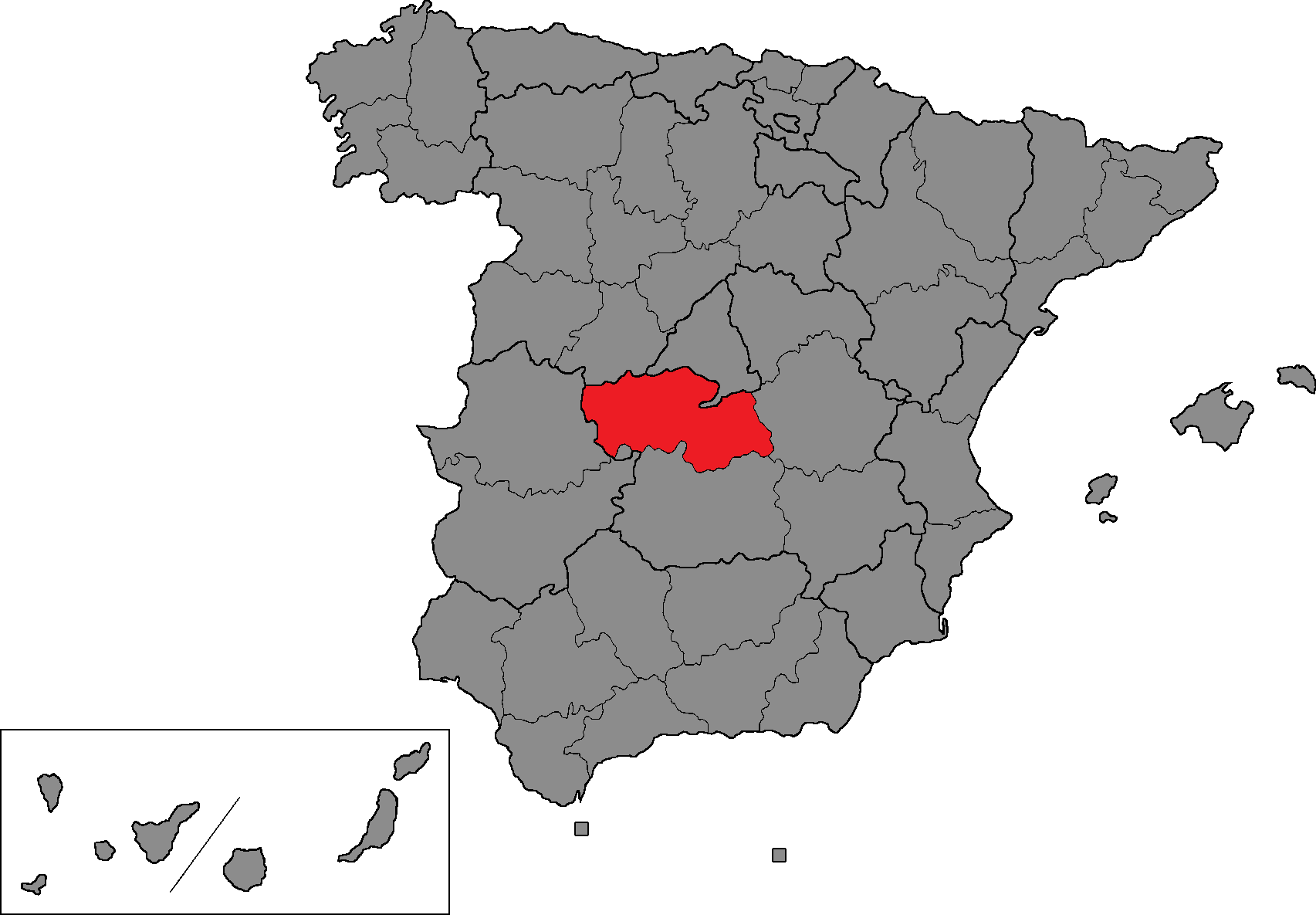 Spanish Congress of Deputies district of Toledo.